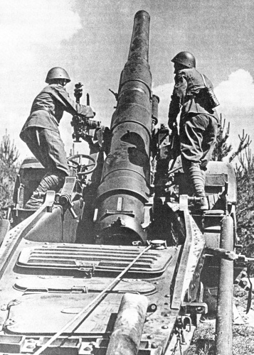 15 cm heavy cannon vz. 15 - Czechoslovak army